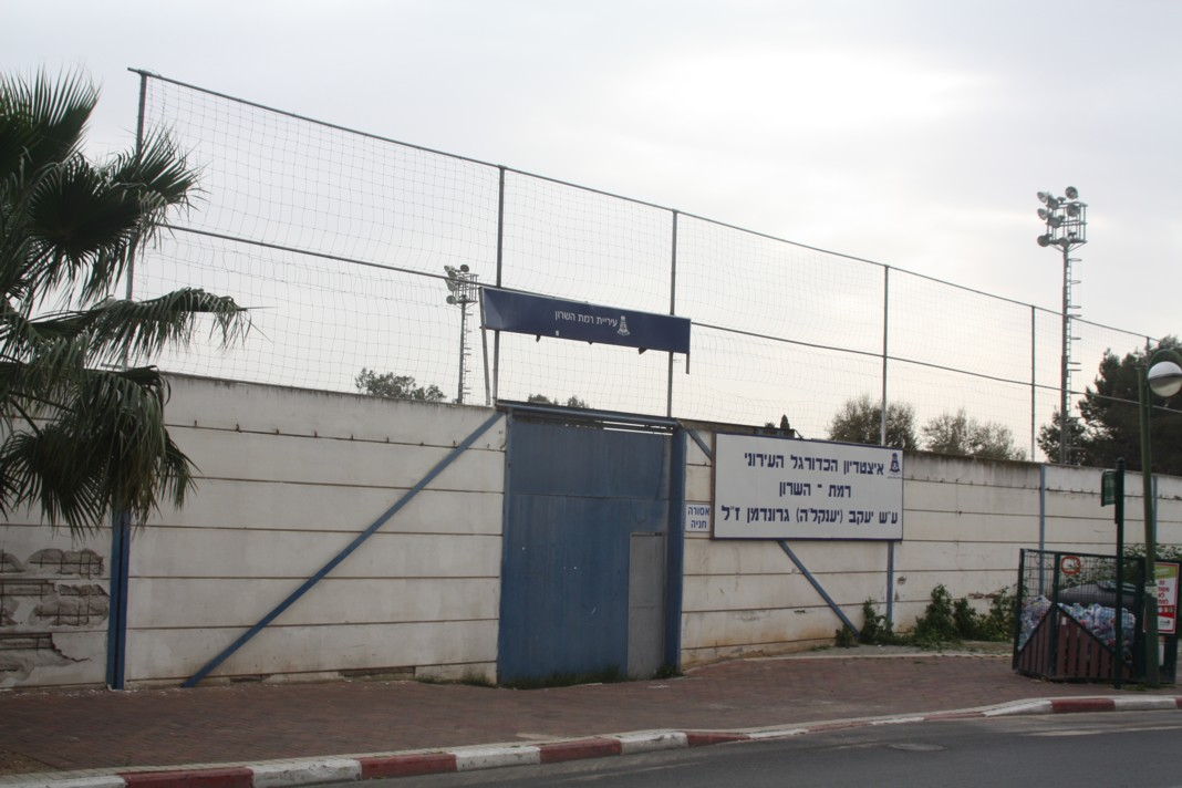 Yakov Grundman Stadium